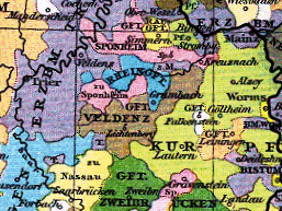 Wild and Rhinegraviate around 1400